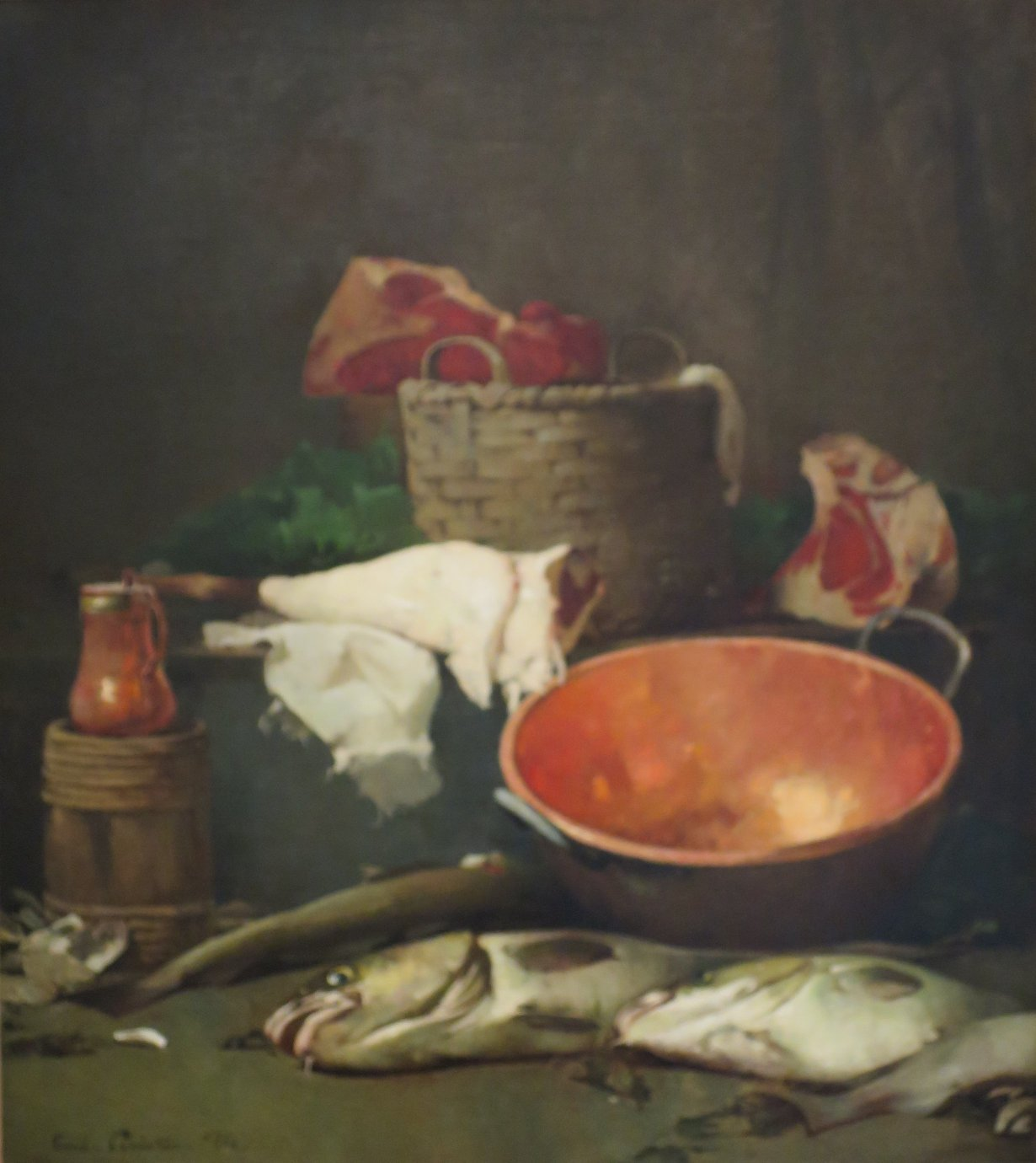 Emil Carlsen – Still Life with Fish and a Copper Bowl, 1894, oil on canvas, High Museum of Art